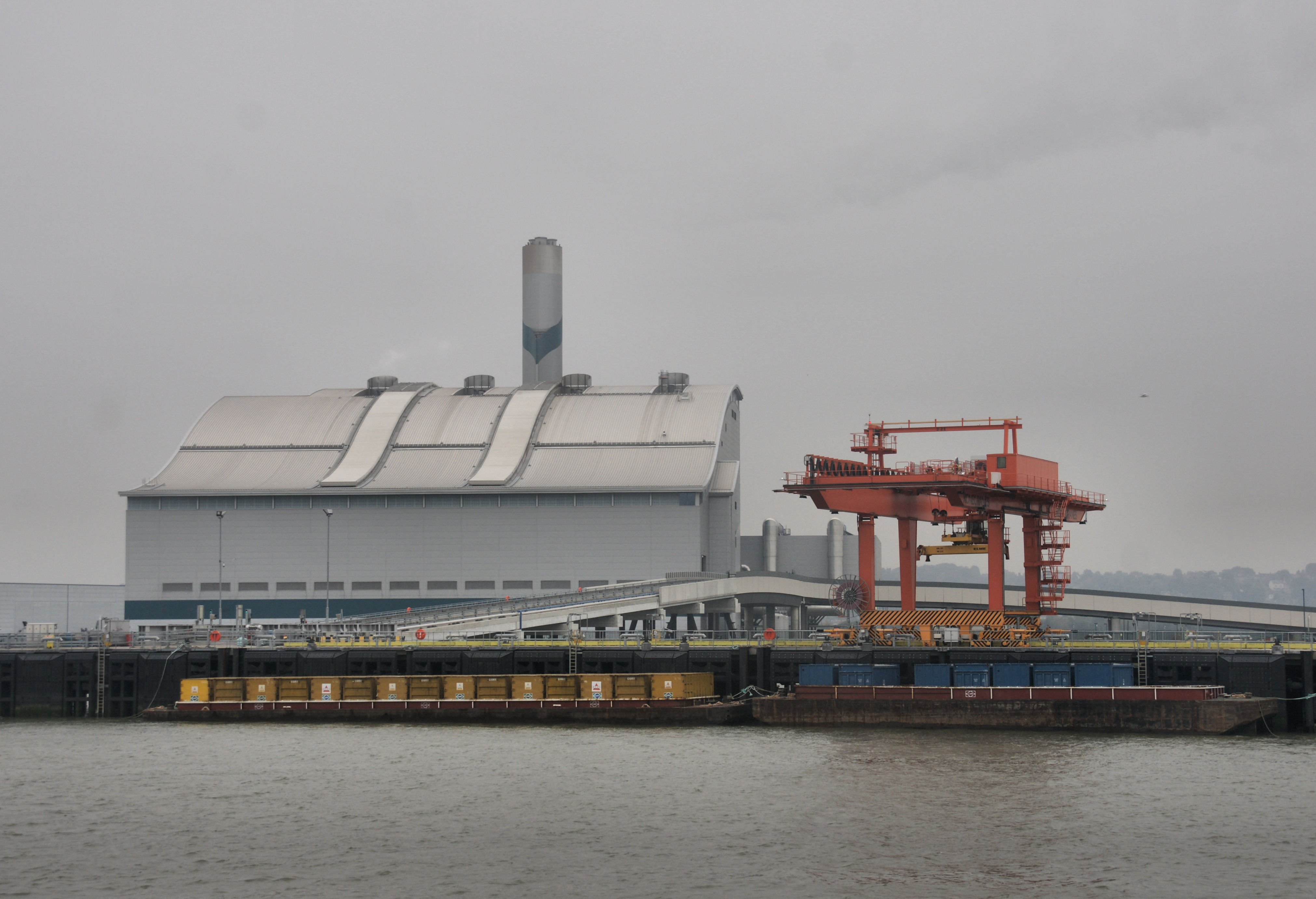 Belvedere Incinerator (Riverside Resource Recovery Energy from Waste Facility, seen from the Thames to the north. Barges carrying refuse are moored on the quay.